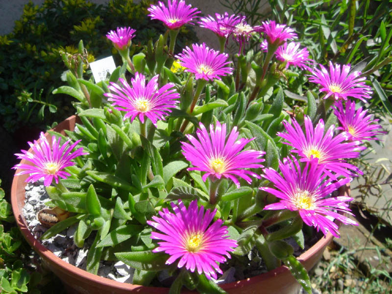 Delosperma sutherlandii